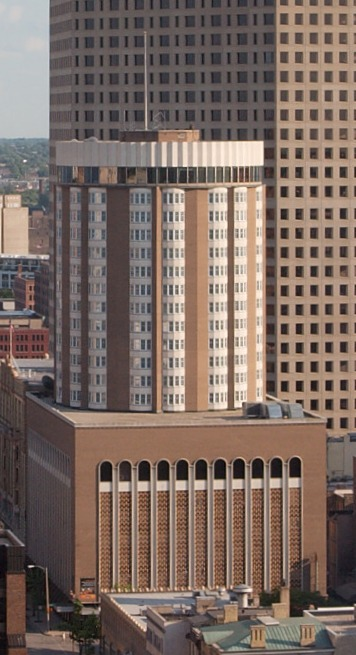 The Pfister Hotel Tower